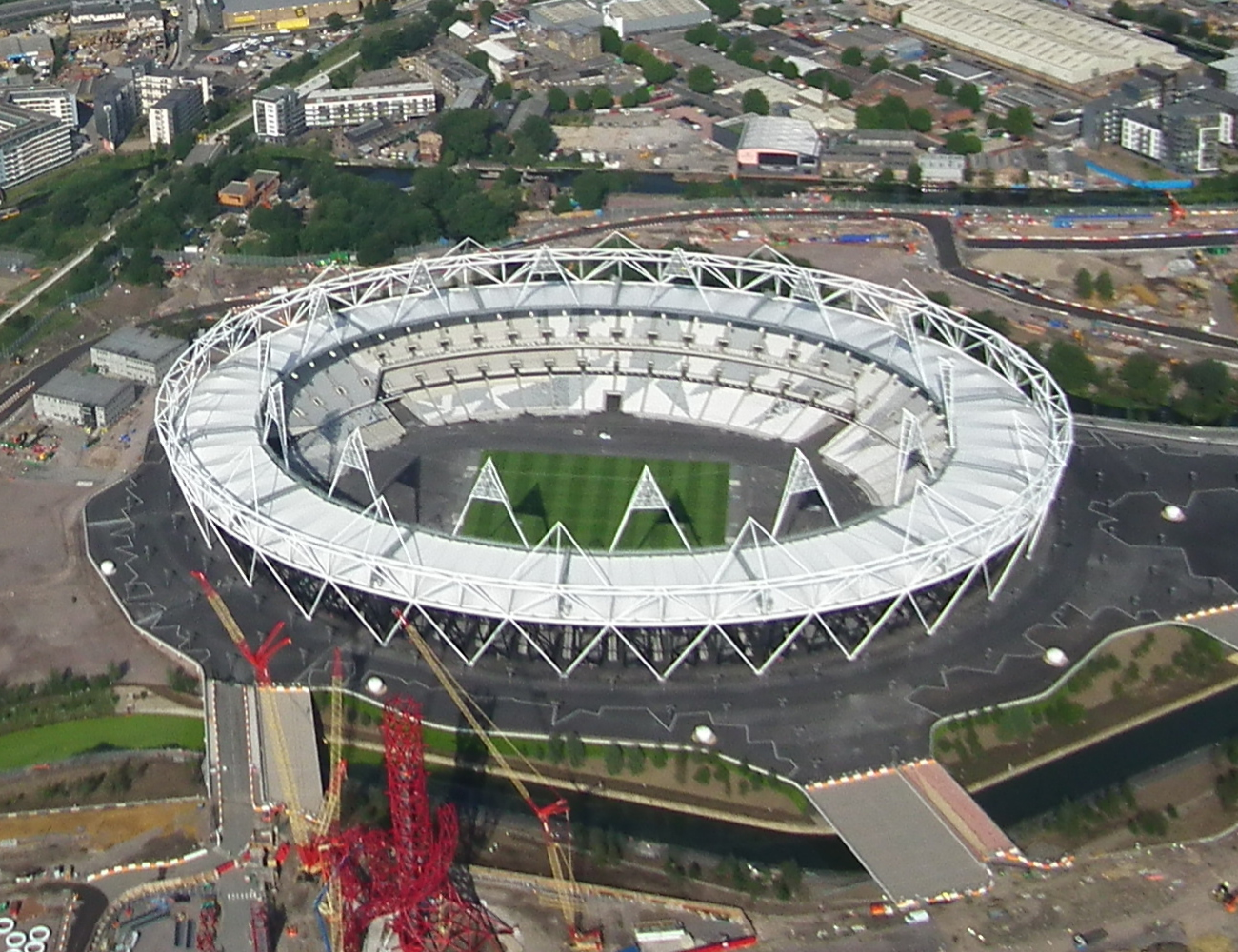 June 2011 - Aerial photo of the Olympic Park main stadium and Orbit tower under construction